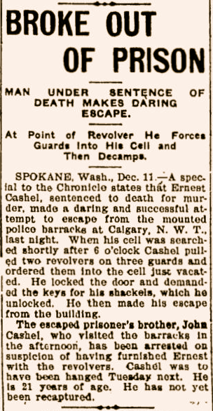 The Californian, 11 December 1903 reporting the escape of Ernest Cashel.